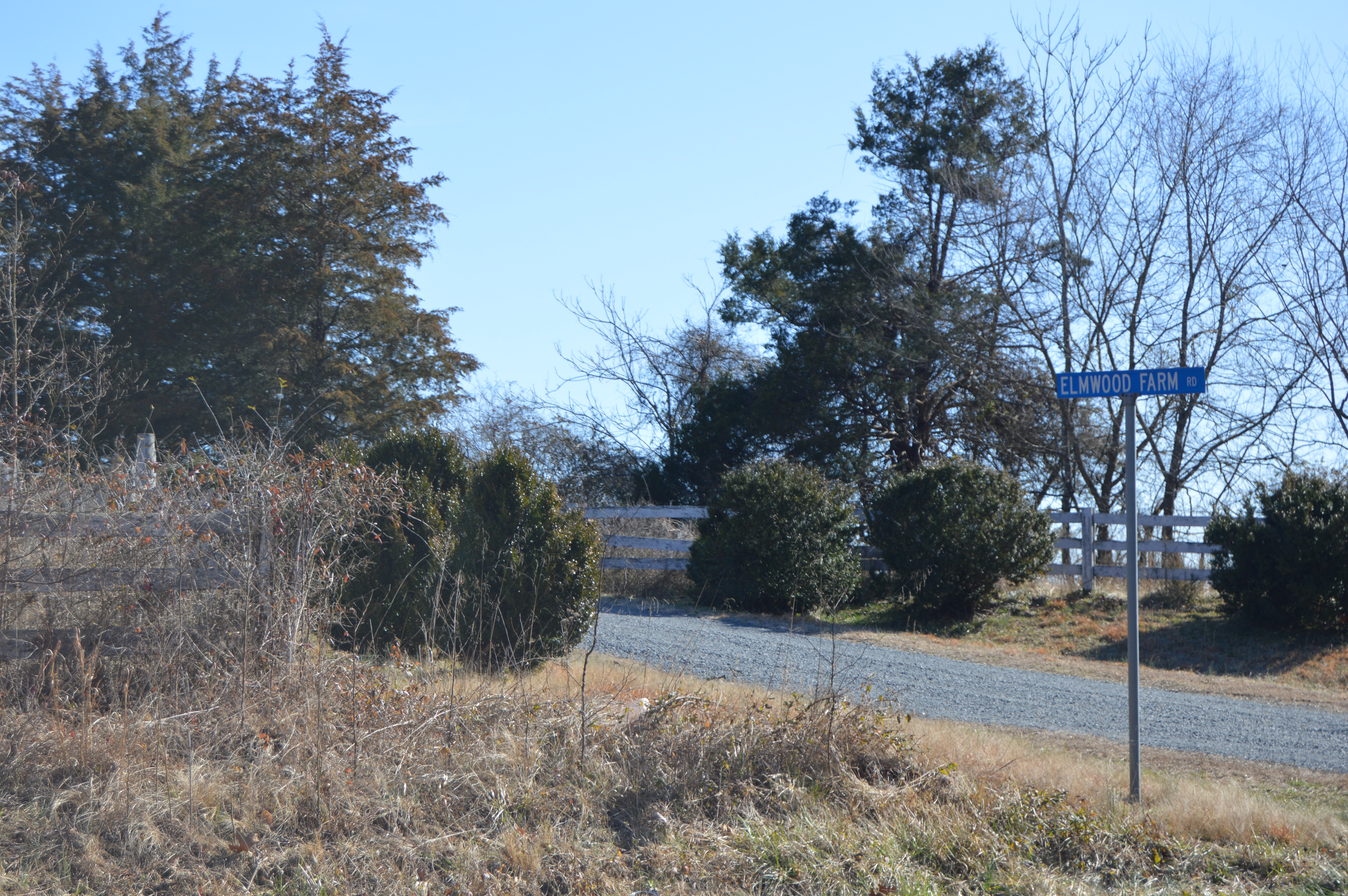 Entrance to the Elmwood estate, located along U.S. Route 522 at Boston in Culpeper County, Virginia, United States. The estate is listed on the National Register of Historic Places.